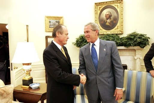 President George W. Bush shakes hands with Prime Minister Peter Medgyessy of Hungary at the end of their meeting in the Oval Office. White House photo.